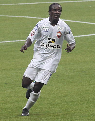 Seydou Doumbia